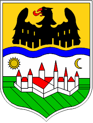 Coat of arms of the Banat Swabians. This coat of arms is the symbol of the people, the Donauschwaben, (albeit created by Hans Diplich in 1950) and was thus created with the idea of its popularization and distribution, much like any national flag or symbol. This particular image (though they are all basically alike) comes from the main group for Donauschwaben in Austria.